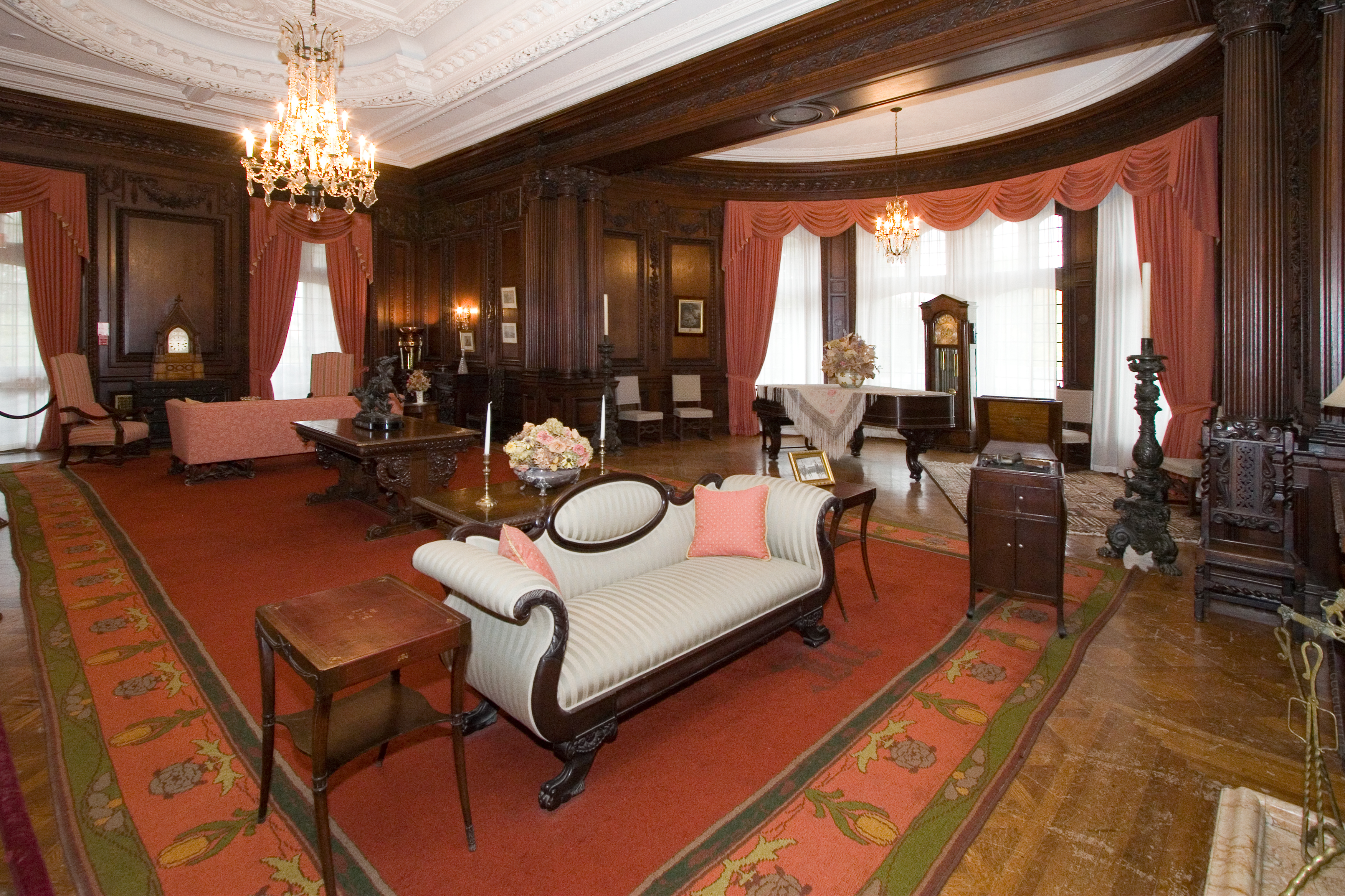 The Oak Room or Sir Henry's Drawing Room, Casa Loma, 1 Austin Terrace, Toronto, Ontario, Canada.